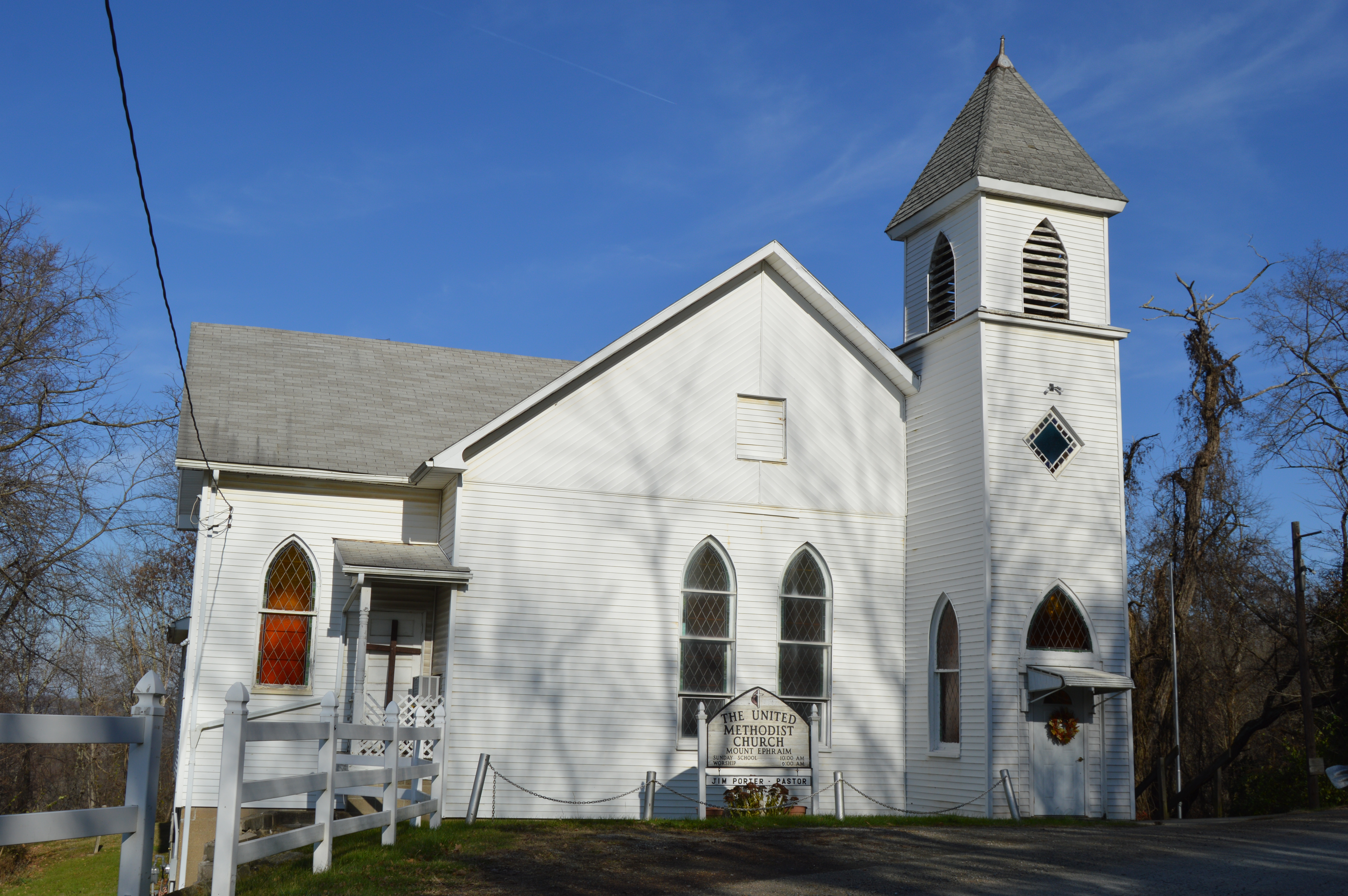 Front of the Mount Ephraim United Methodist Church, located on Mud Run Road at Mount Ephraim in Seneca Township, Noble County, Ohio, United States.